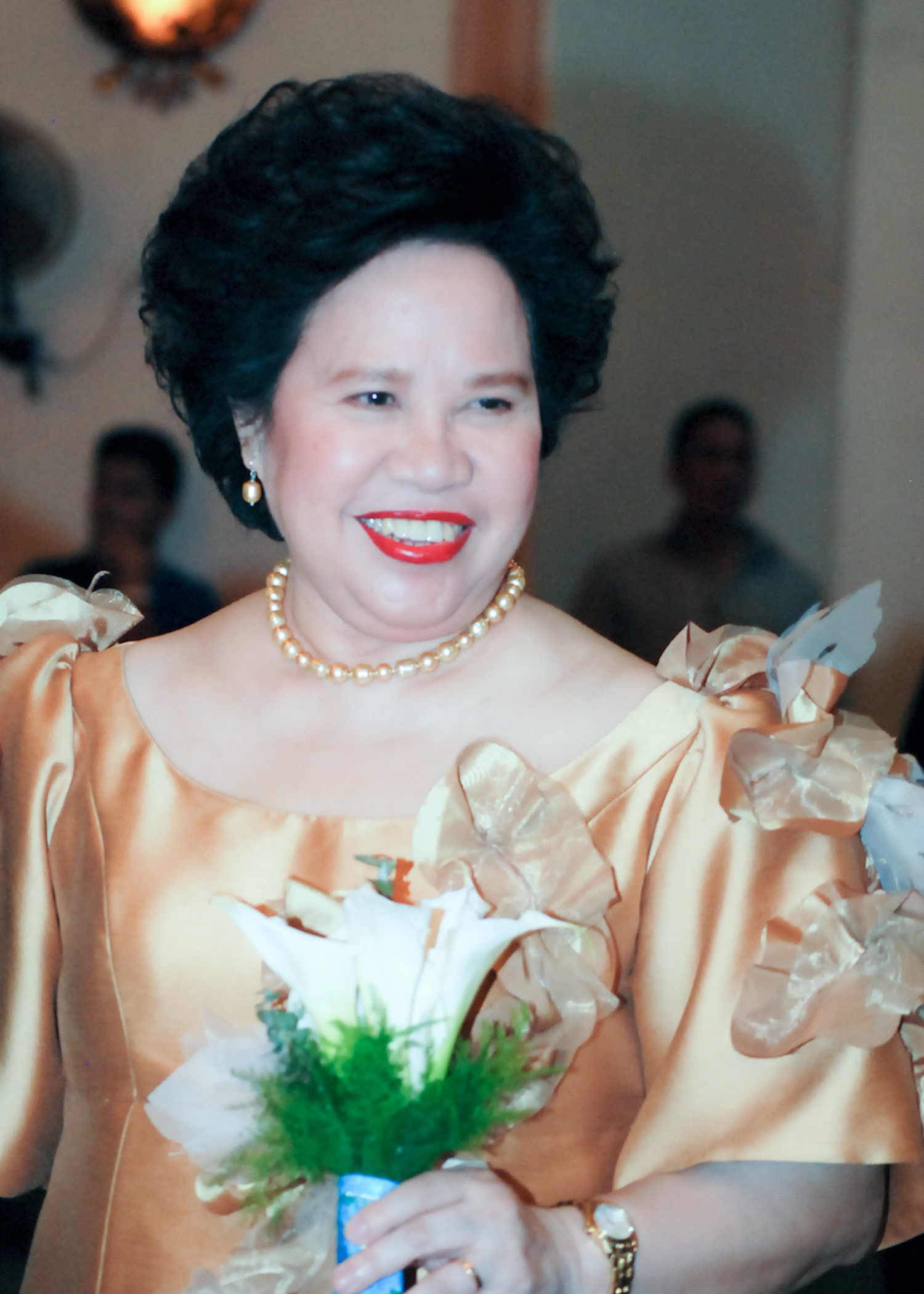 Miriam Defensor Santiago is the senator most feared during plenary debates, but is the favorite among campus crowds.